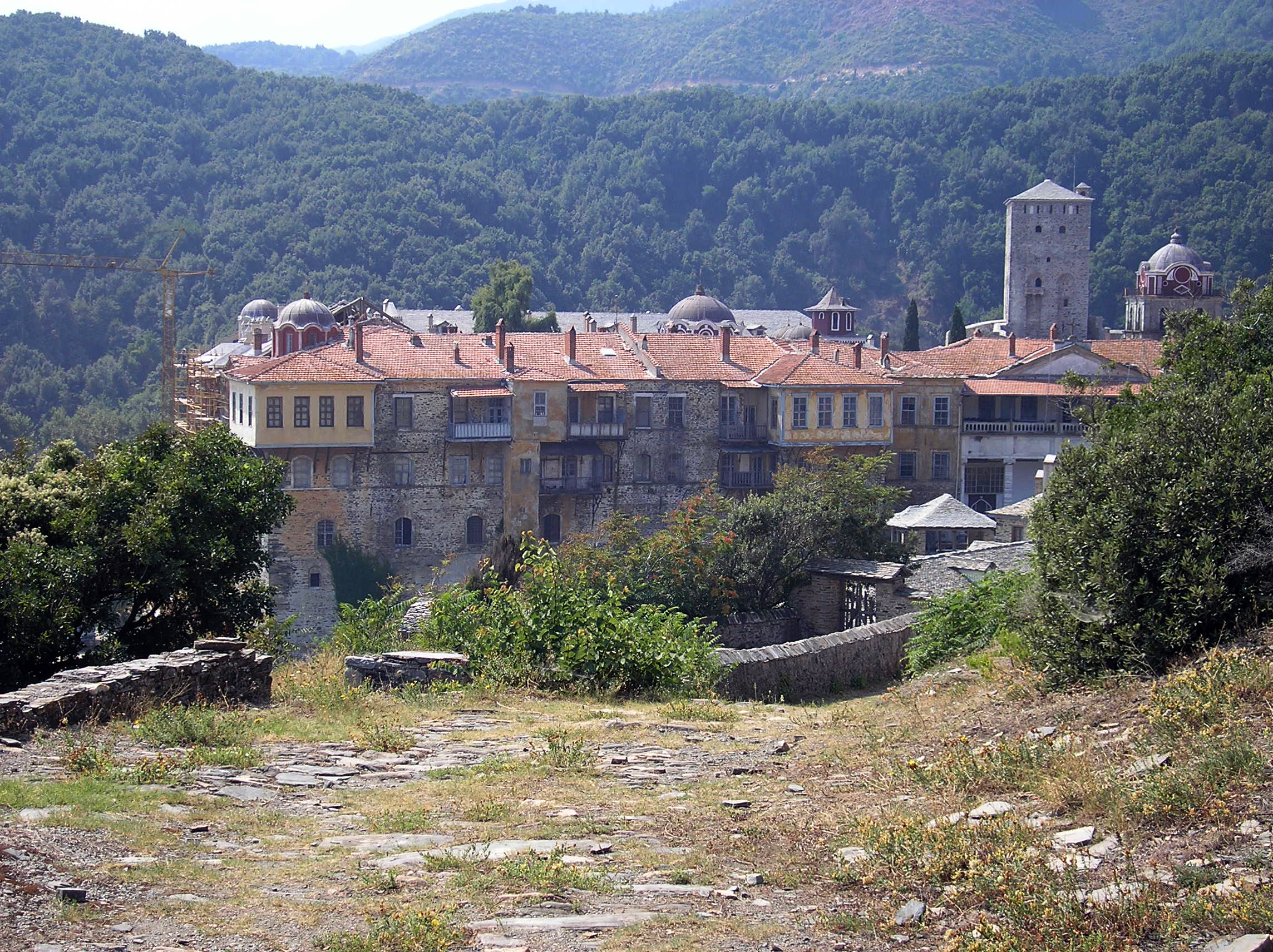 Iviron monastery at Mount Athos, Greece as seen from the North-West, arriving from the path that connects Iviron with Stavronikita monastery. Photo taken by Thodoris Lakiotis, August 2006. Posted under GFDL with his permission.